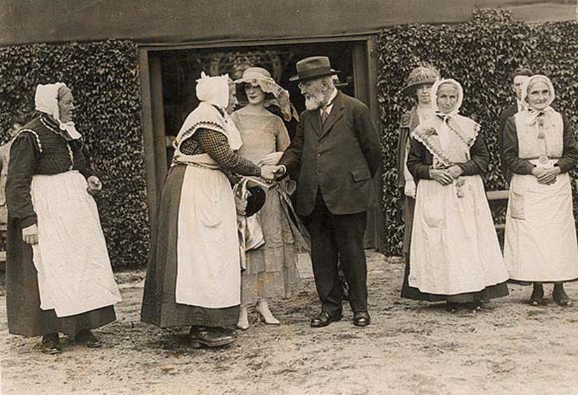 This is Timothy Michael Healy, 1st Governor-General of the Irish Free State, who occupied that role from December 1922 until January 1928. He is pictured here (presumably accompanied by his wife?) on the first day of the Dublin Horse Show, meeting some women from the Industry Workers of Co. Longford. Date: 14 August 1923 NLI Ref.: HOG204